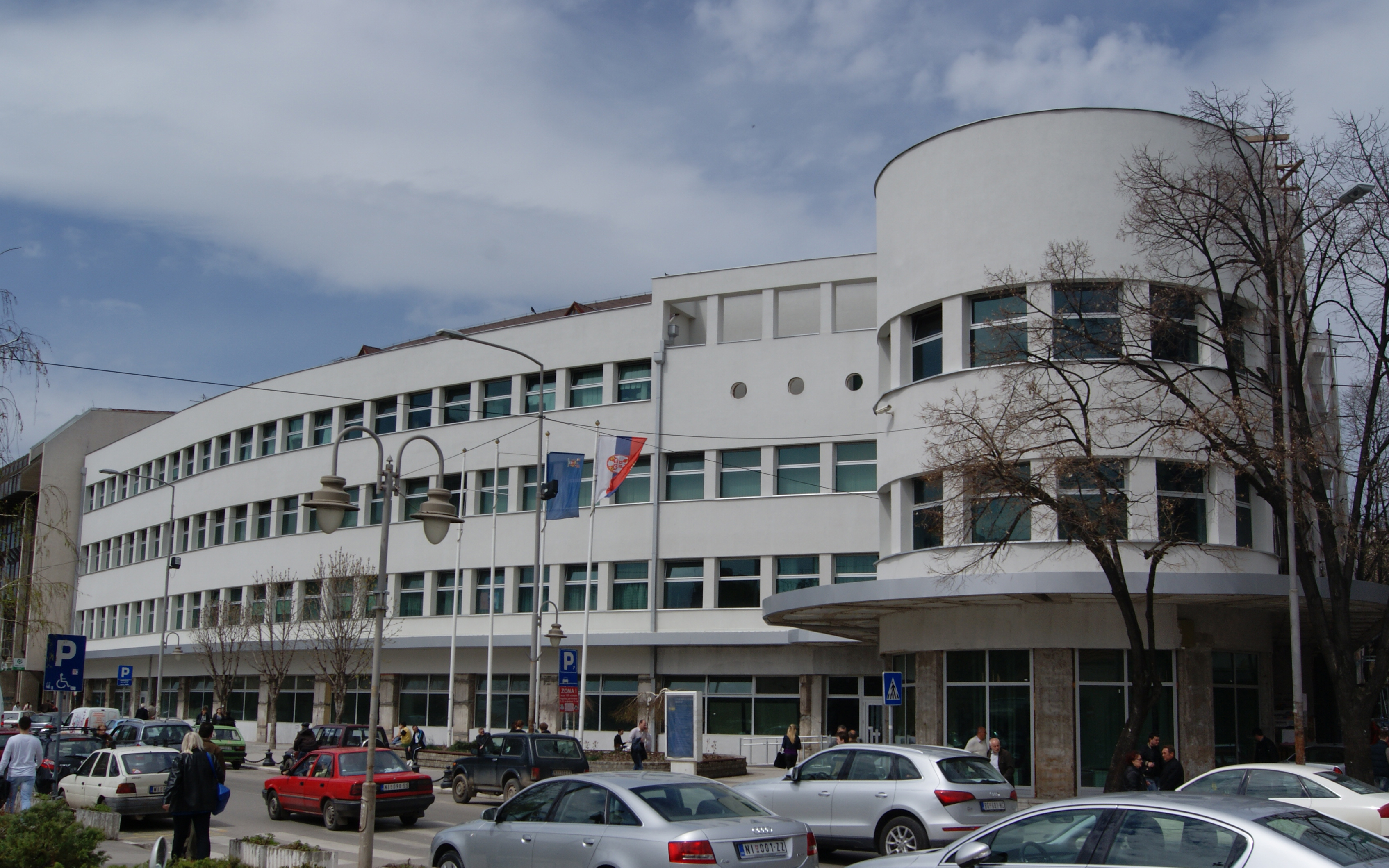 Municipity building in Nis, Serbia